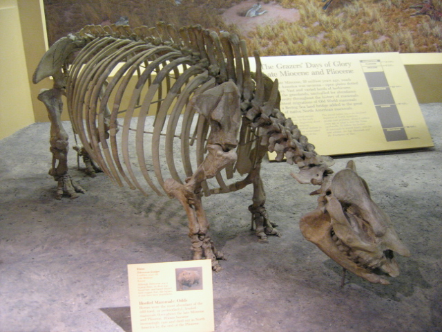 Teleoceras fossiger fossil at the National Museum of Natural History, Washington, D.C.